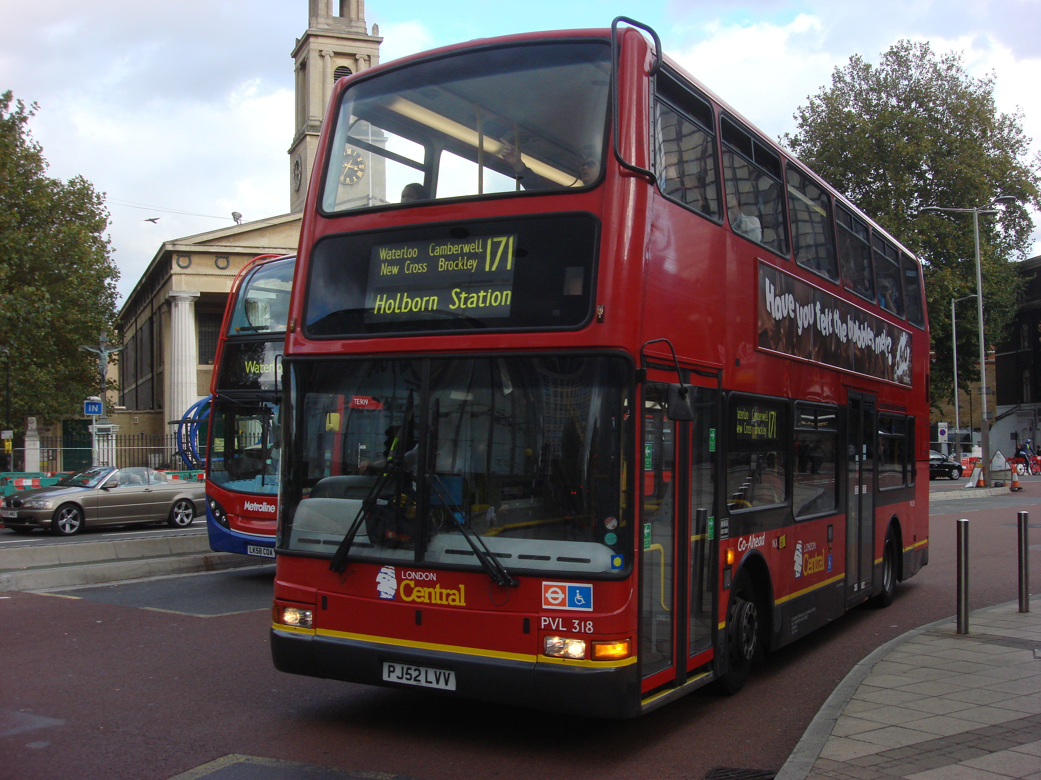 A bus on London Buses route 171. Bound for Holborn Station outside St John's Church, Waterloo.